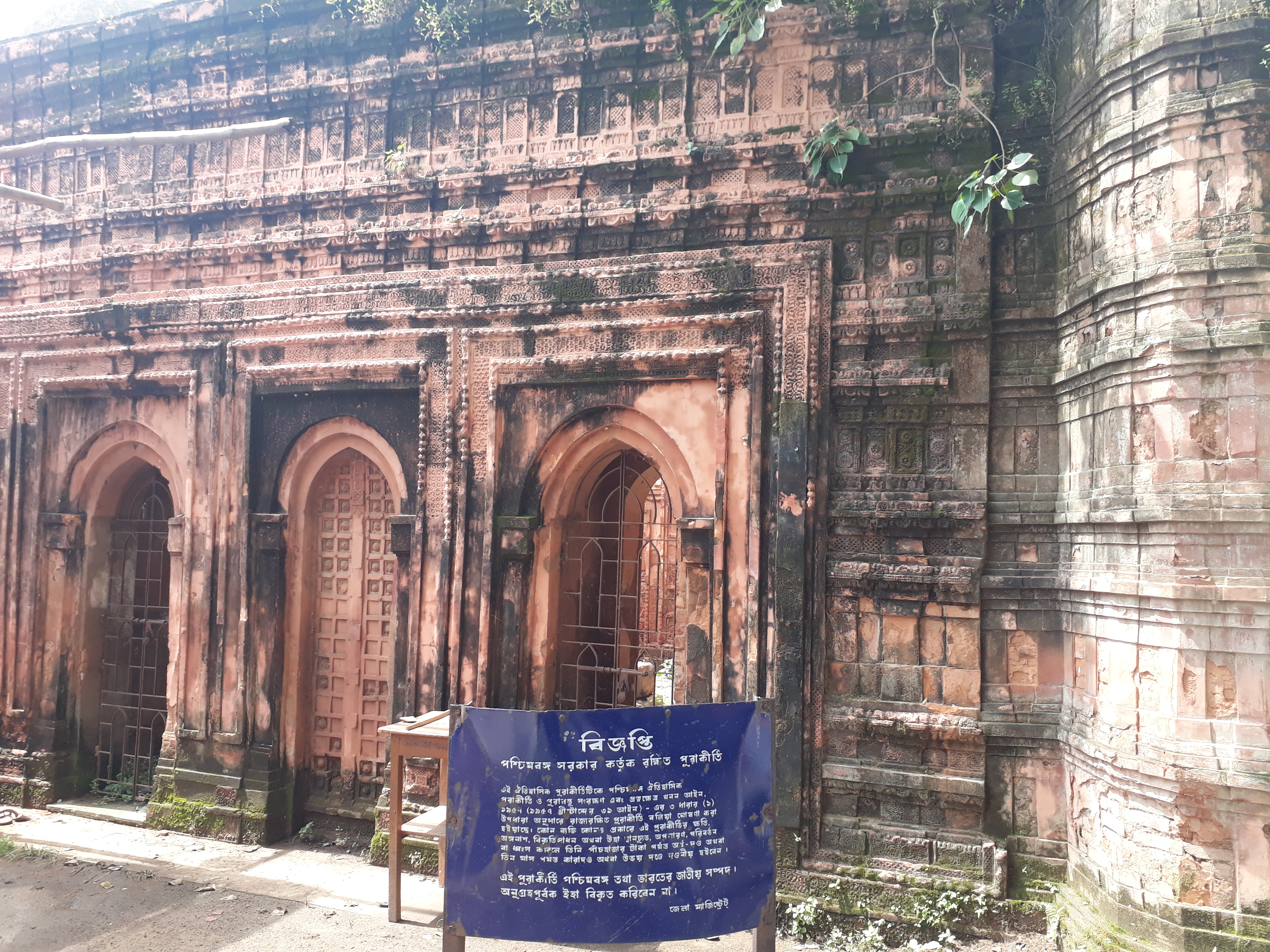 Futi mosque at Rajnagar, the then capital of Birbhum districts, West Bengal